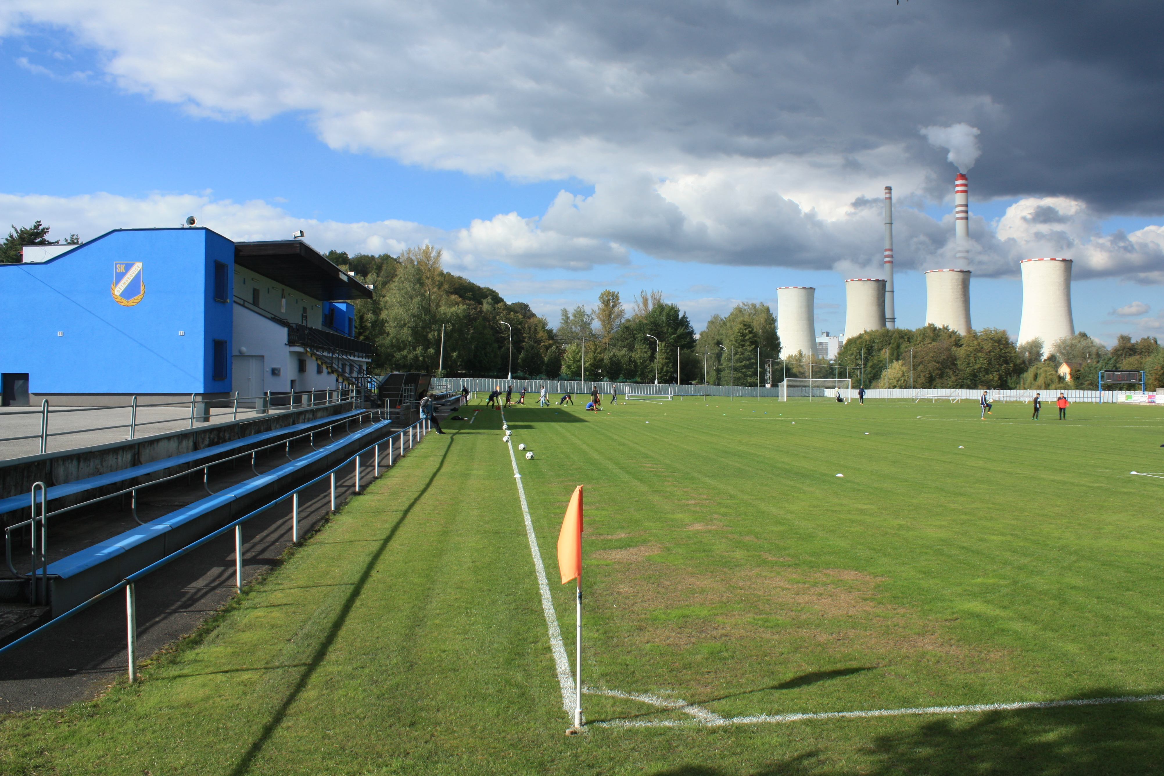 Football venue of club SK Dětmarovice in Dětmarovice, Karviná District, Moravian-Silesian Region, Czechia